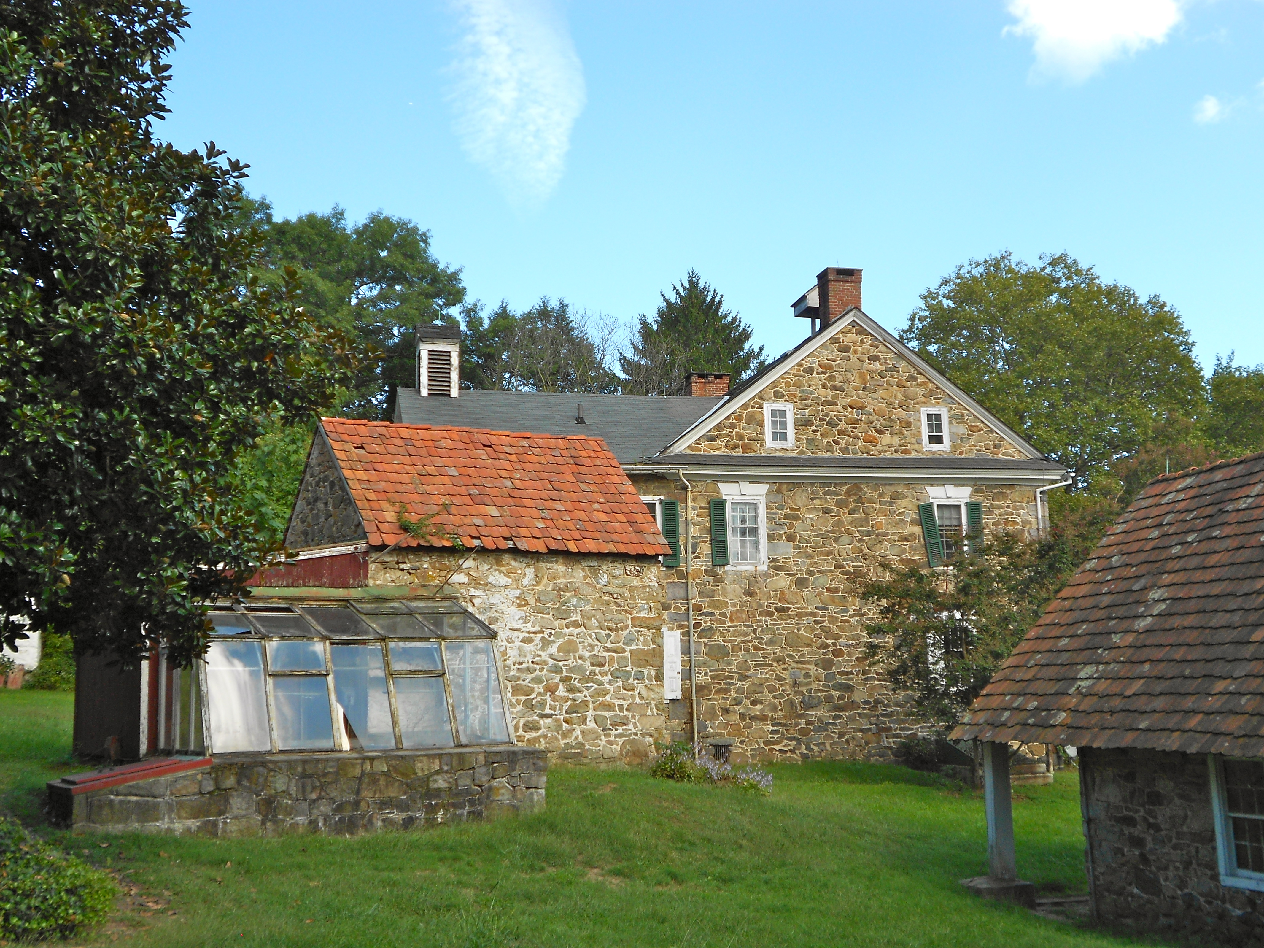 Reiff Farm on Old State Road in Oley Township, Berks County, Pennsylvania.